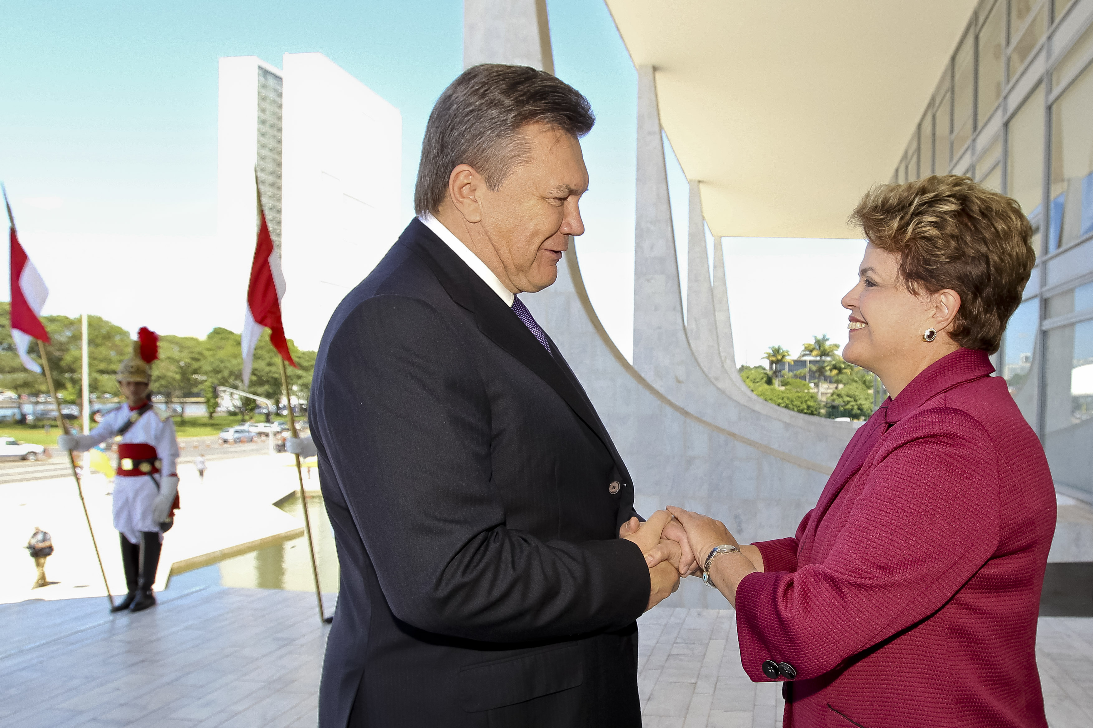 President Dilma Rousseff greets Ukrainian President Viktor Yanukovych upon his arrival to Palácio da Alvorada, October 2011.